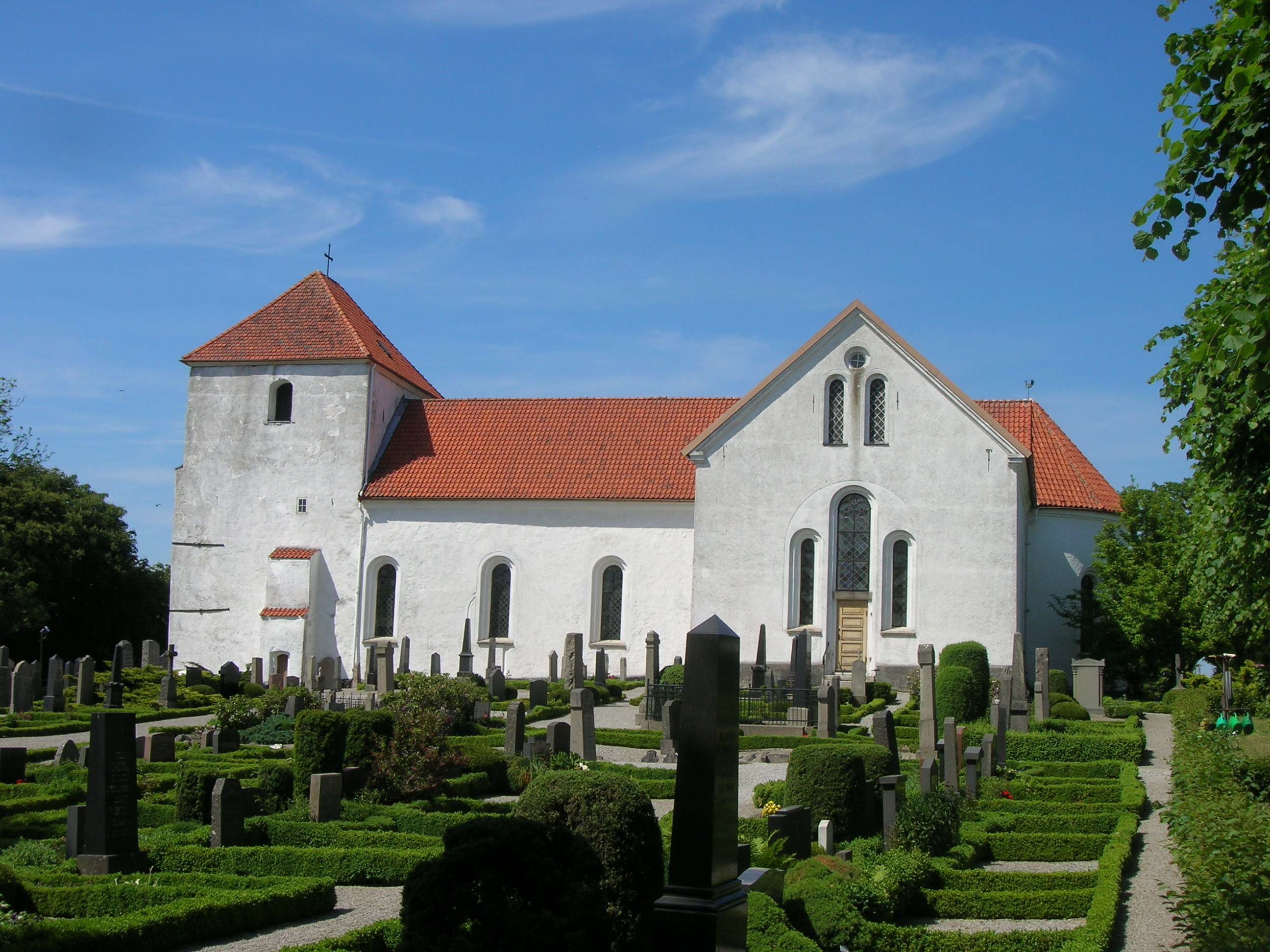 Fränninge Church, Sjöbo Municipality, Scania, Diocese of Lund, Sweden.